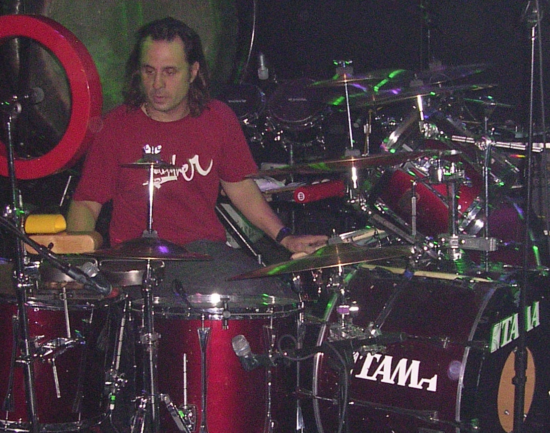 Dave Lombardo performing with Fantomas